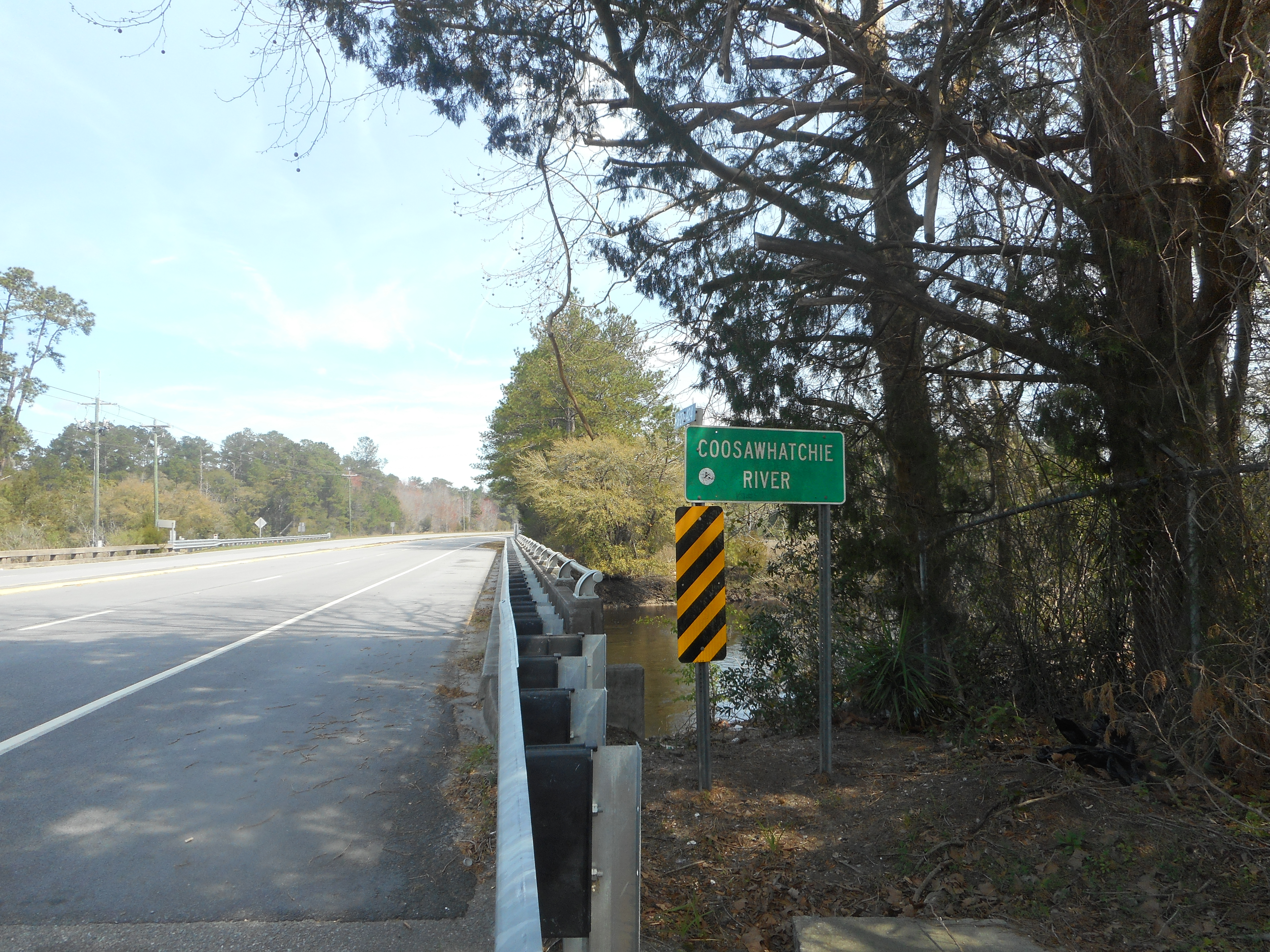 Northbound on the former U.S. Route 17 just before the bridge over the Coosawhatchie River in Coosawhatchie, South Carolina. This segment, now known as Nuna Rock Road is the frontage road along the west side of the southbound lanes of Interstate 95-US 17 between Exits 22 in Ridgeland and 33 in Point South, South Carolina. US 17 was realigned to an overlap with I-95 between those two interchanges in the 1970's.